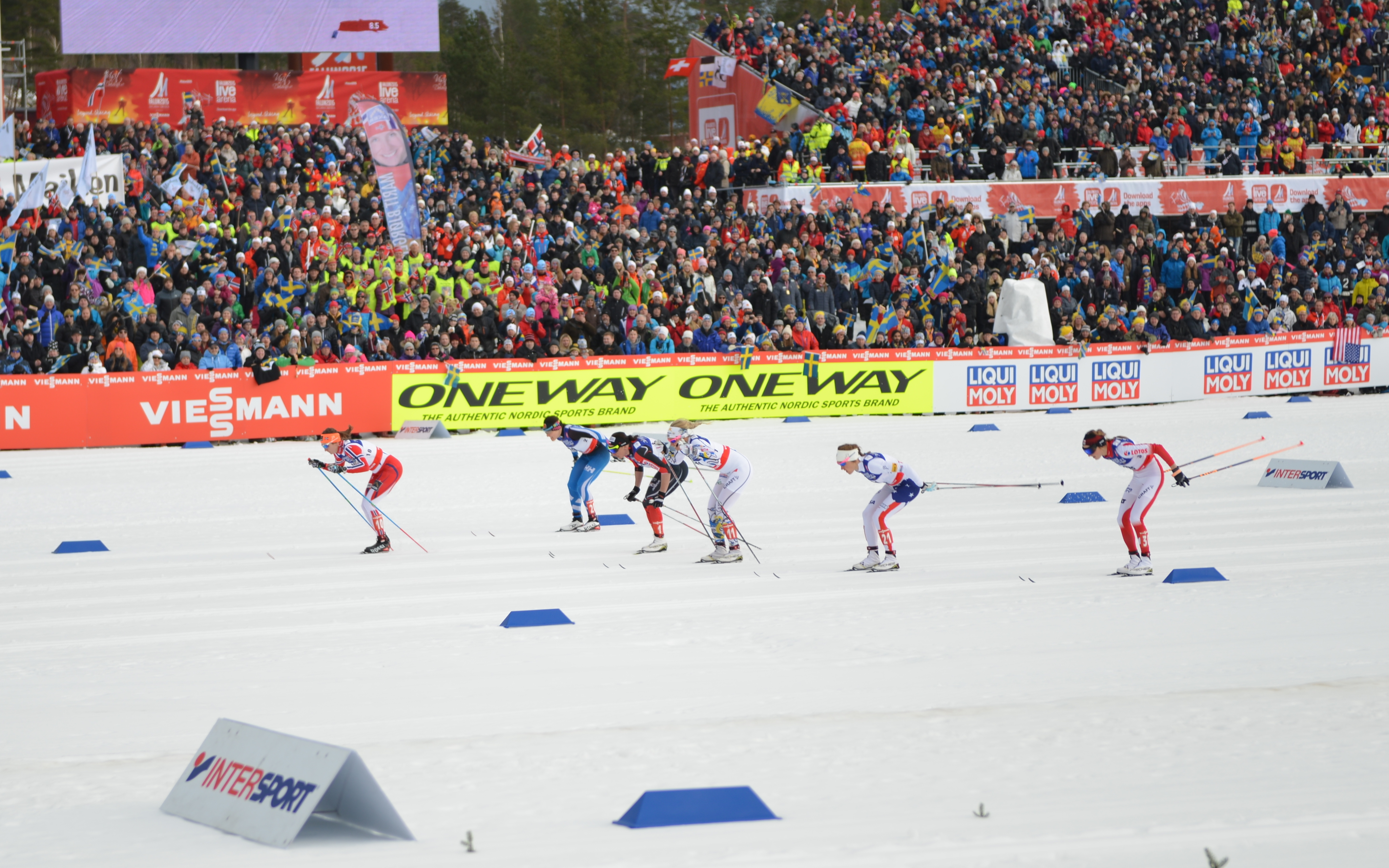 One of the women's cross-country sprint quarterfinals at the FIS Nordic World Ski Championships 2015 in Falun.